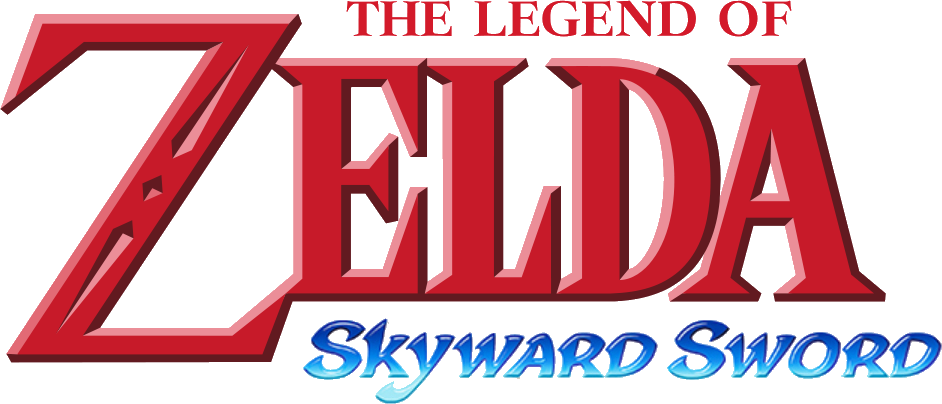 Logotype of The Legend of Zelda: Skyward Sword.